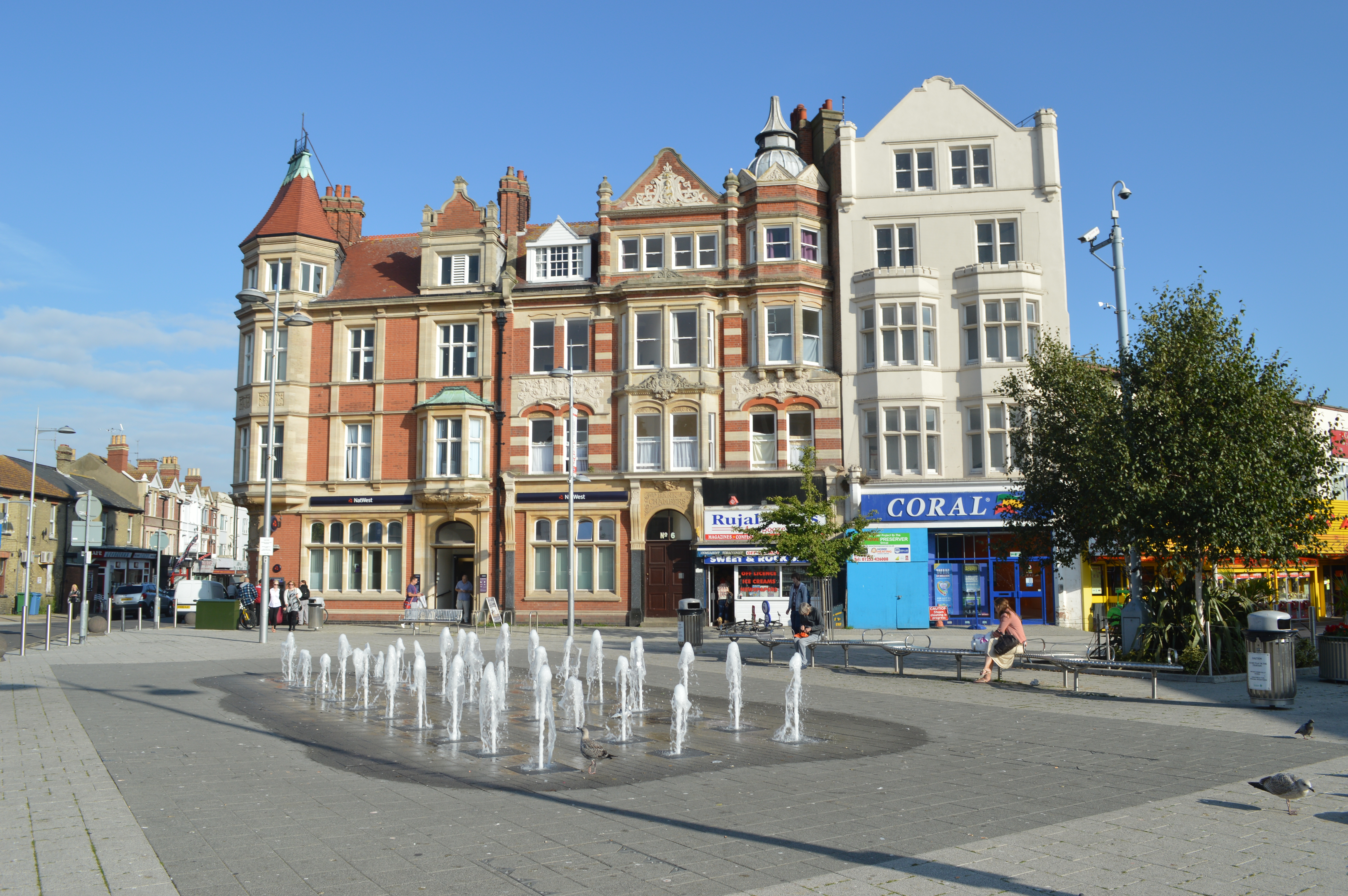 The town centre fountain, Pier Ave, Clacton-on-Sea, looking toward Station Road junction exit.[1]